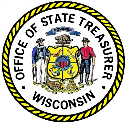 Seal of the State Treasurer of Wisconsin.